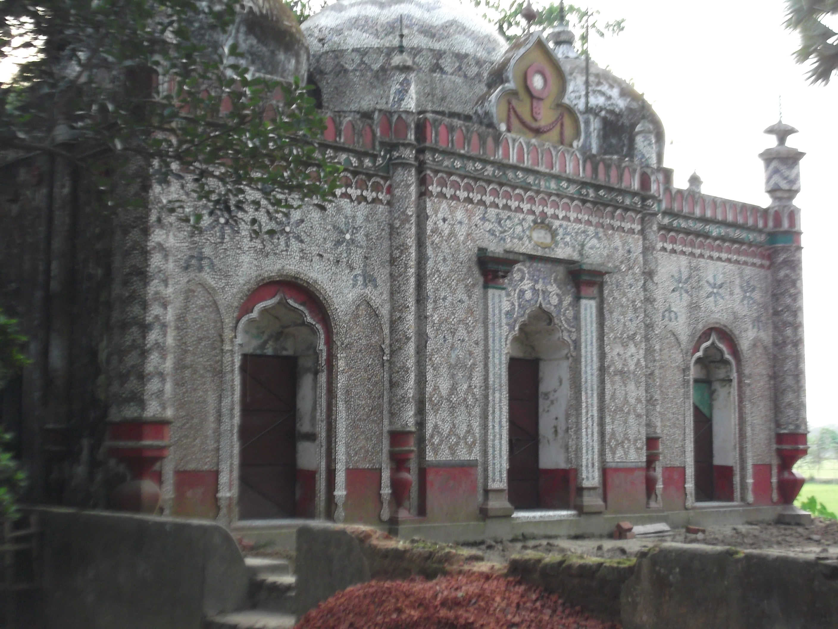 District :Comilla, Upzila:Chandina.